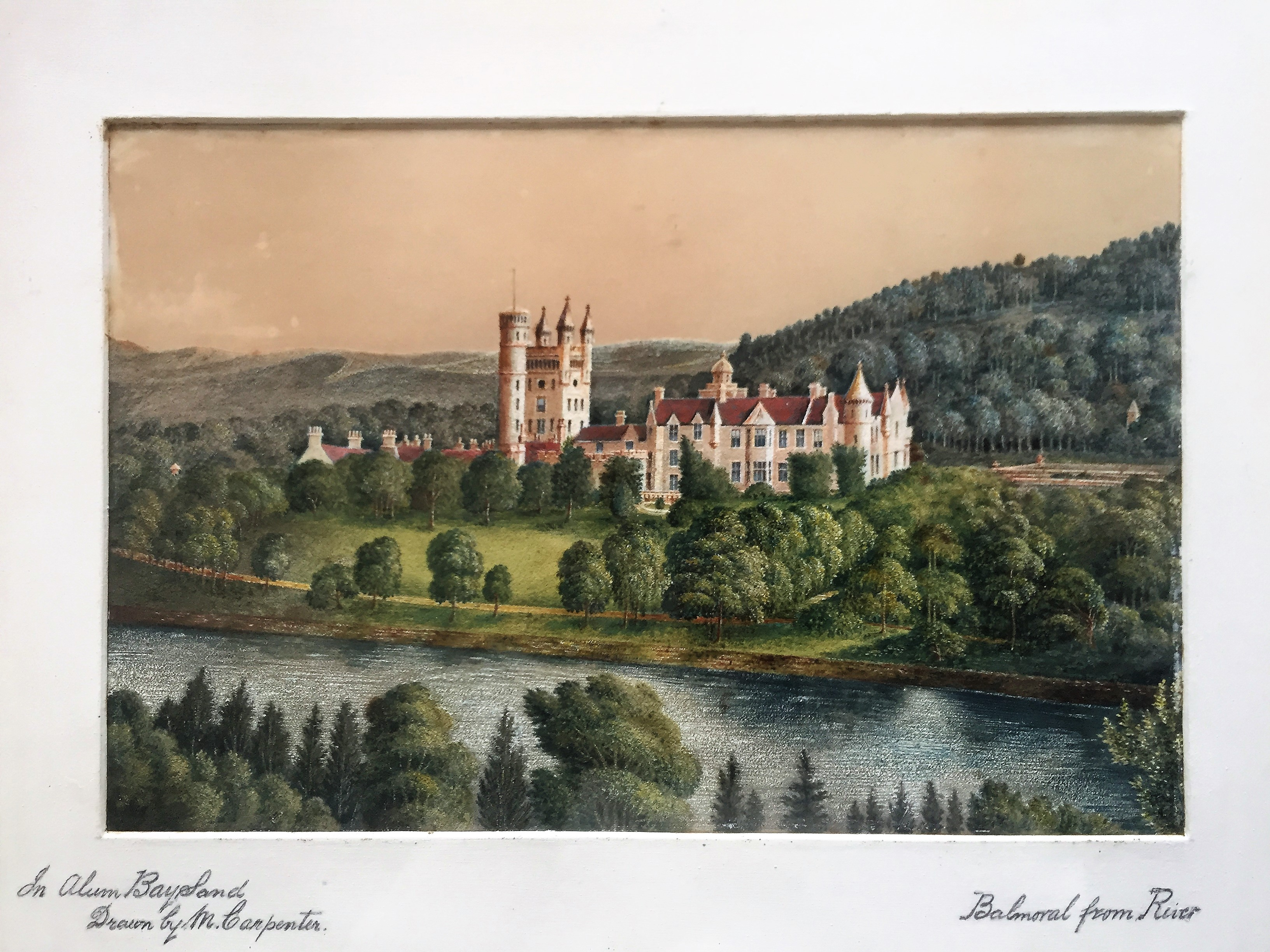 Picture of Balmoral castle using the marmotinto style, the art of creating pictures using coloured sand or marble dust.